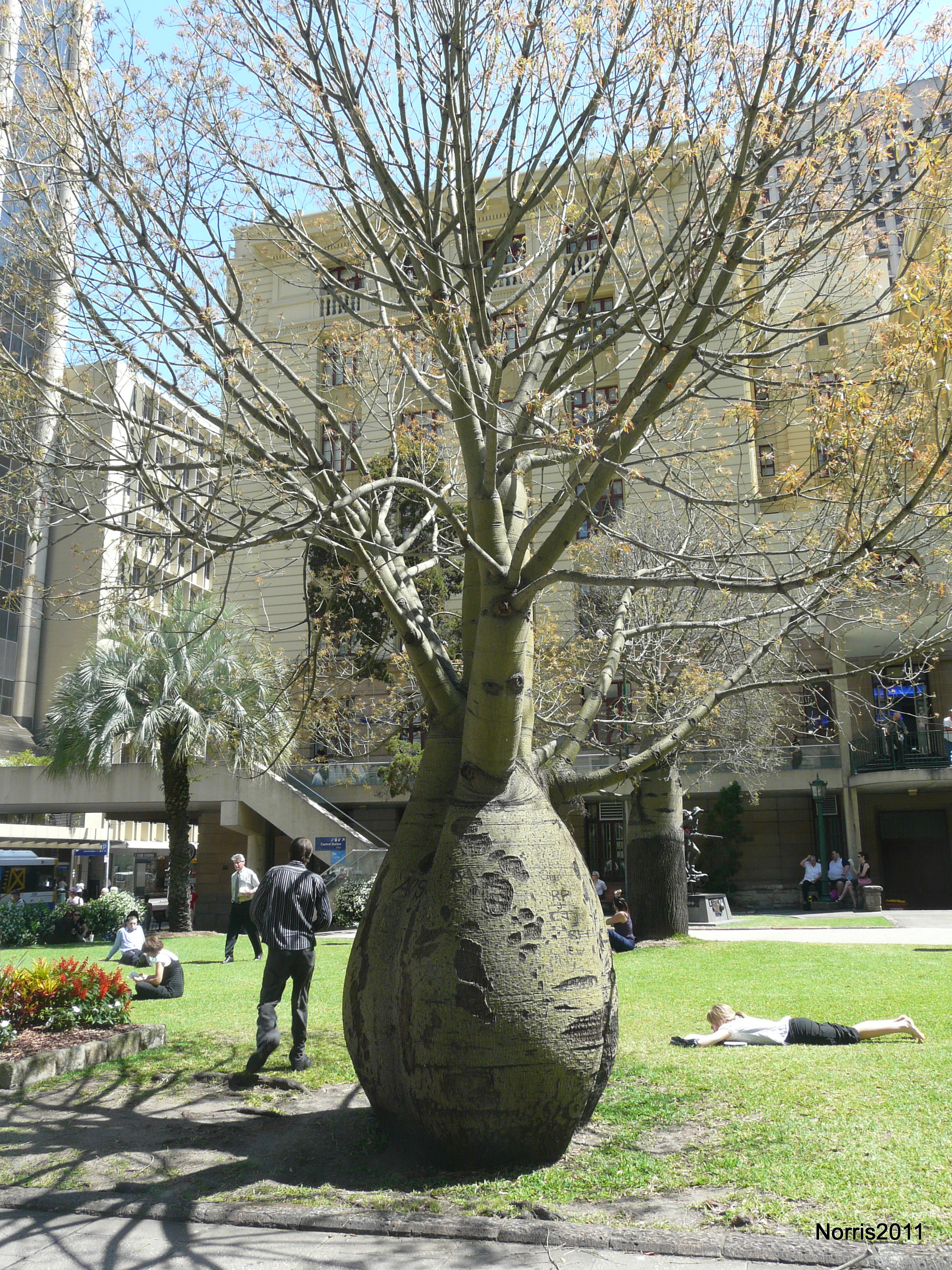 Bottle tree.